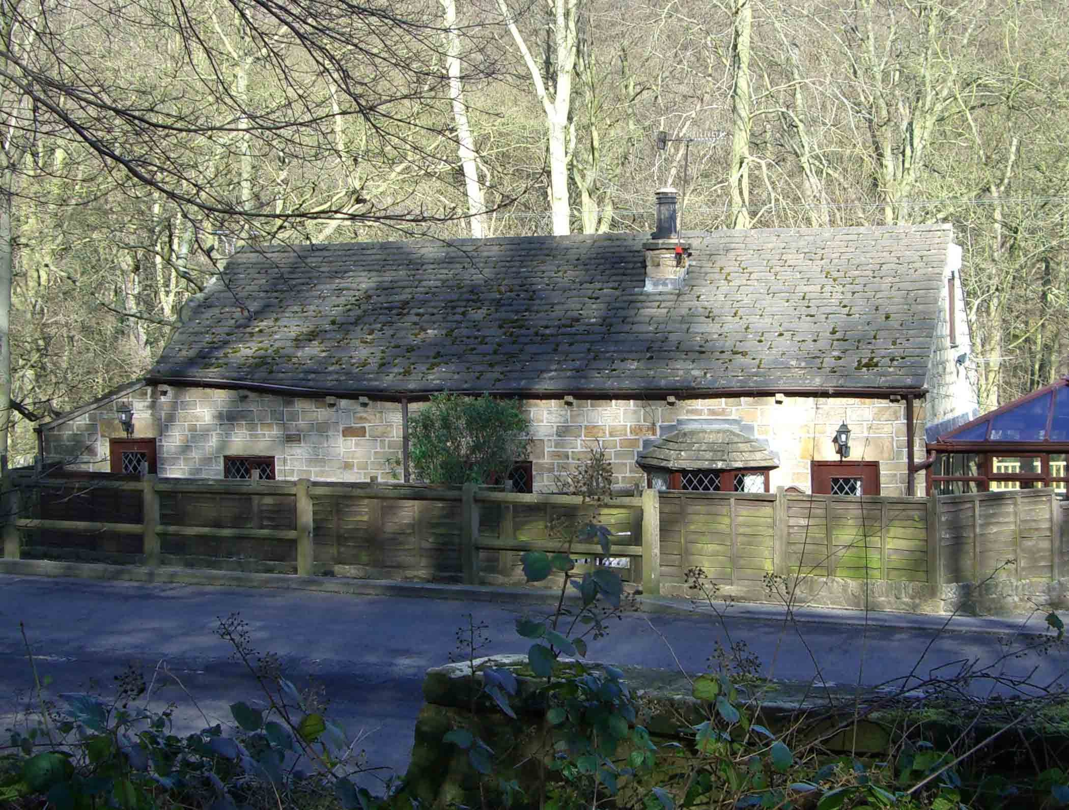 Toll Bar Cottage, Middlewood, Sheffield